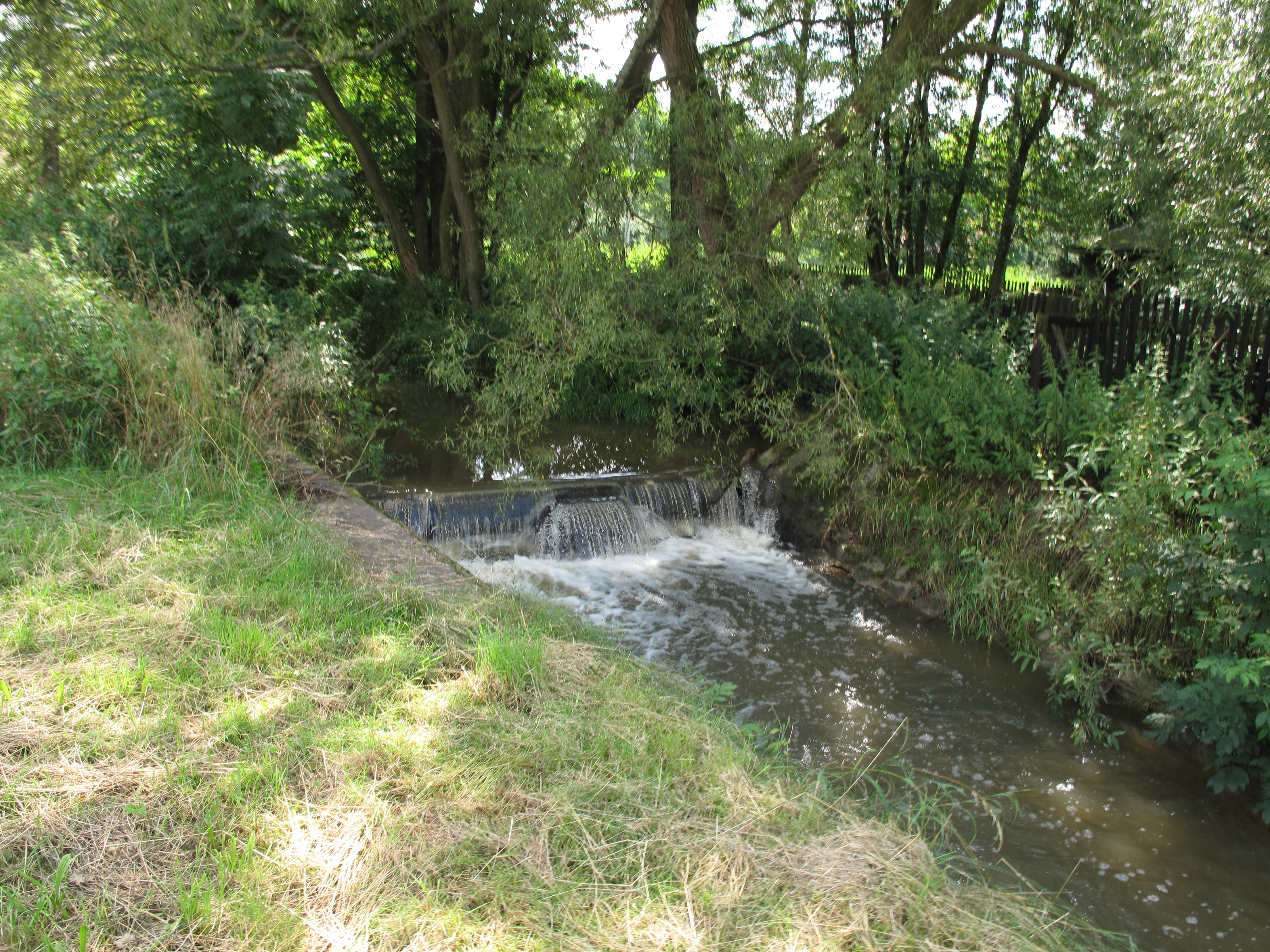 This photograph was taken within the scope of the second year of the 'Czech Municipalities Photographs' grant.